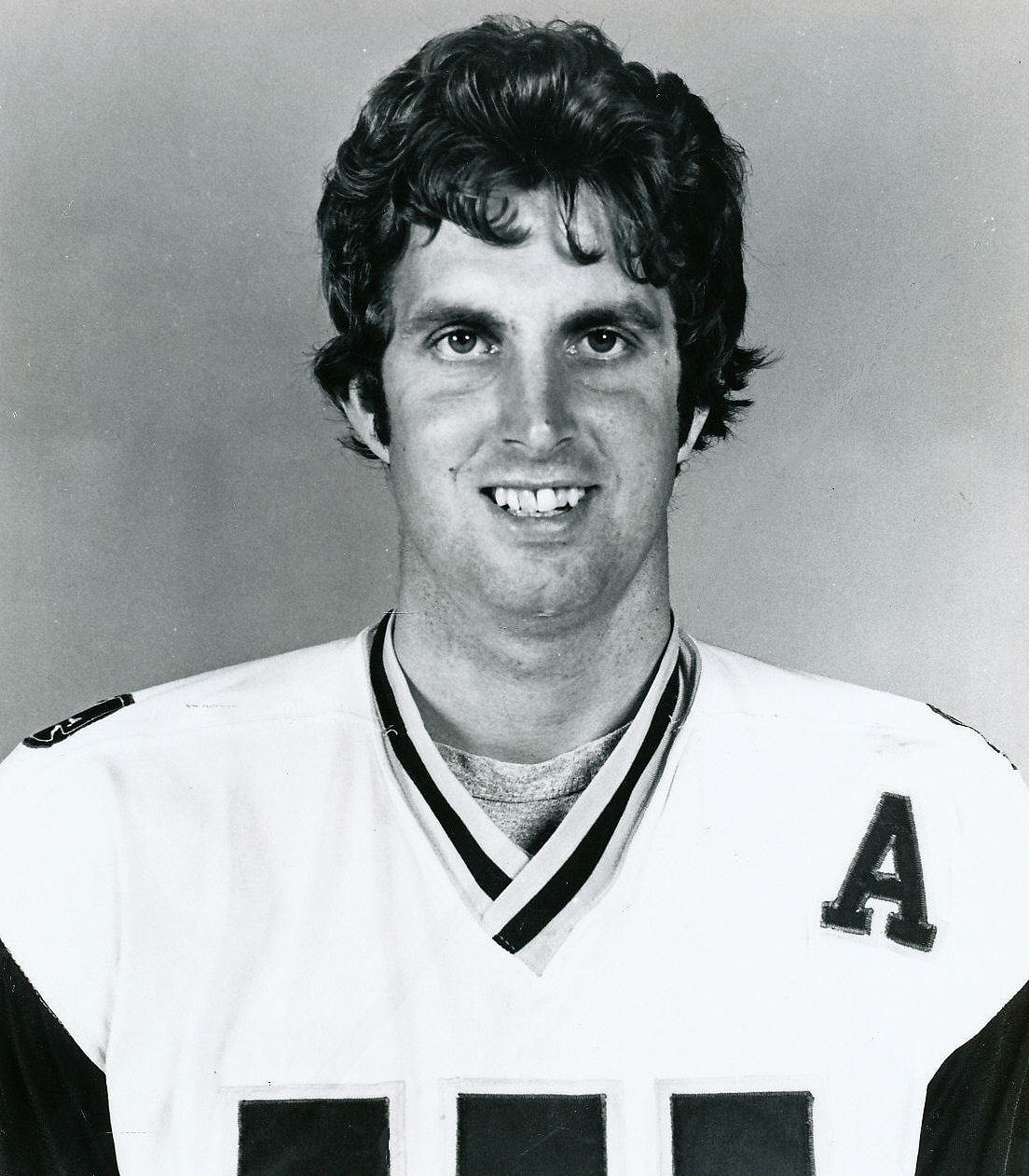 Photo of ice hockey player Larry Pleau as a member of the New England Whalers. The item has no copyright markings on it as can be seen in the links above.